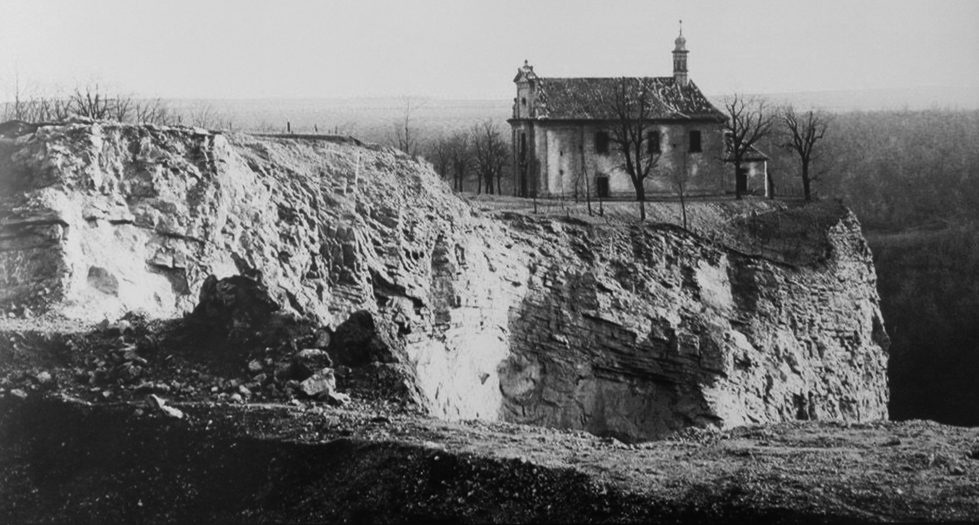 The church of St. Prokop (in Prague in Daleje Valley) was built at the top of the limestone rocks in the Baroque style by Pavel Ignác Bayer with the financial support of Adam Schwarzenberg from 1711 to 1712. Eleven years later (1723) a part of the ship was added to the church. The last construction changes of the church took place in 170 years (1893). Destruction of the rock masses in 1890 led to situation that the church was at the edge of the limestone quarry. During the Second World War, the Germans built an underground buildings in the mined quarry areas. After the end of World War II, the Czechoslovak army took over the undergroud buildings and began to use it for military purposes. The church was included in the public inaccessible military guarded area. For reasons of broken statics (and the danger of spontaneous collapse) he was demolished in 1966.